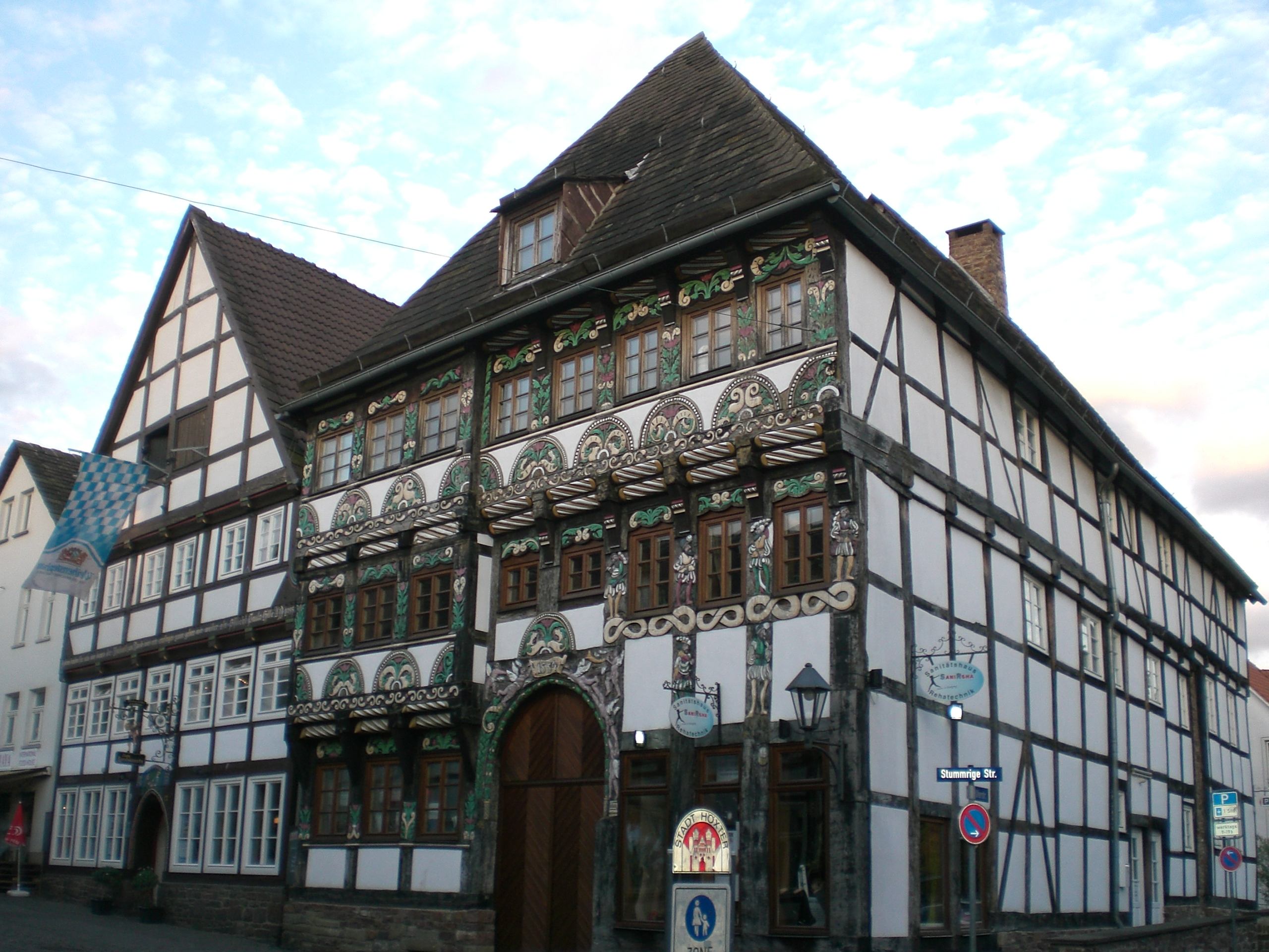 Haus Horstkotte in Höxter